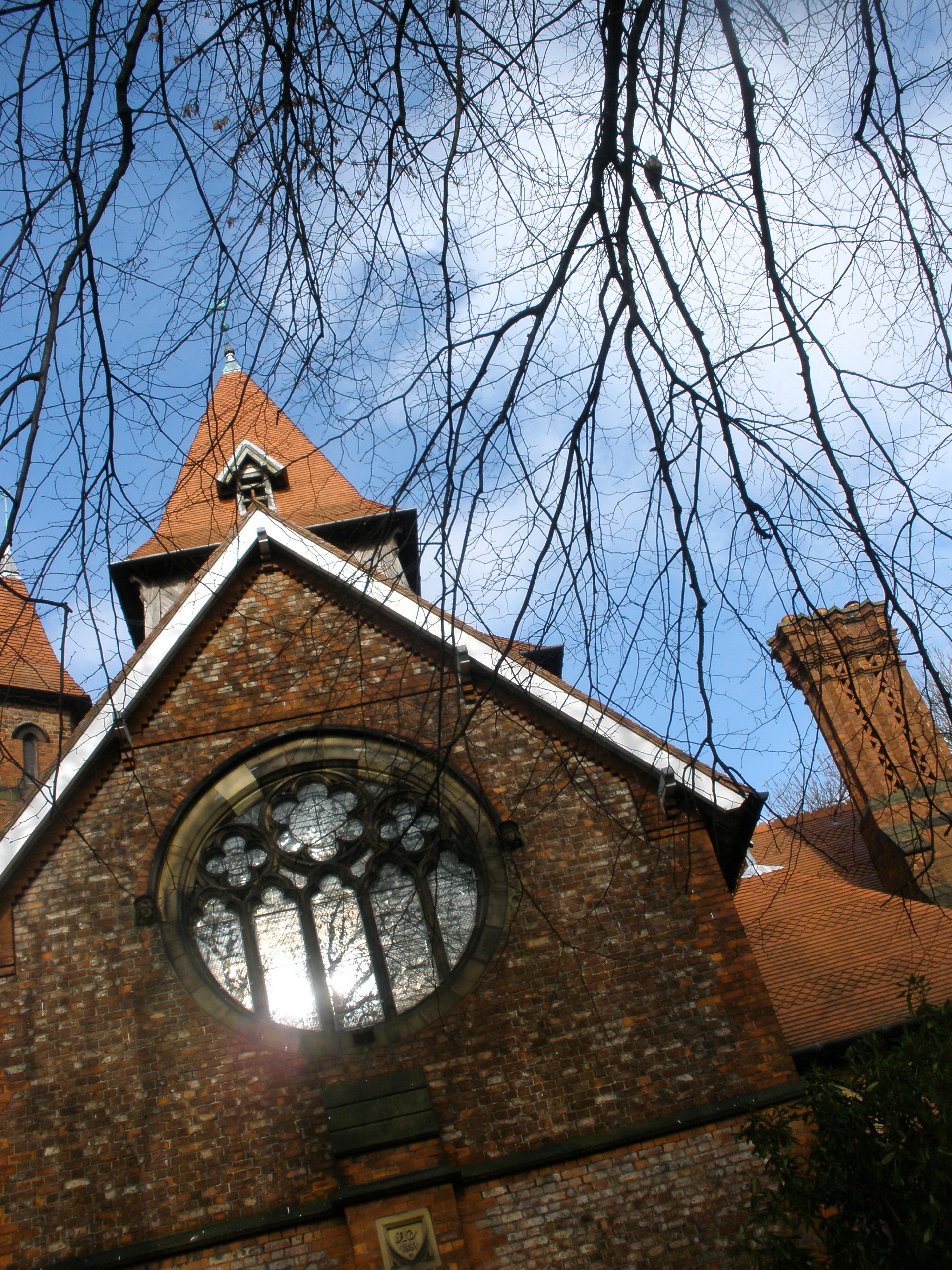 Transept of St Ann of Haughton church in Denton, Manchester, UK